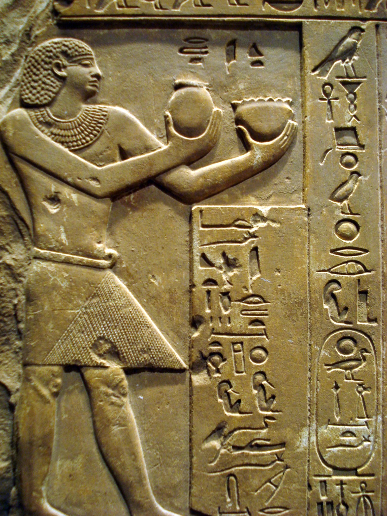 Funerary stele of Intef II. Limestone. Middle Kingdom, Dynasty XI, c. 2108-2059 BC. From Thebes. Metropolitan Museum of Art. Accession Number: 13.182.3